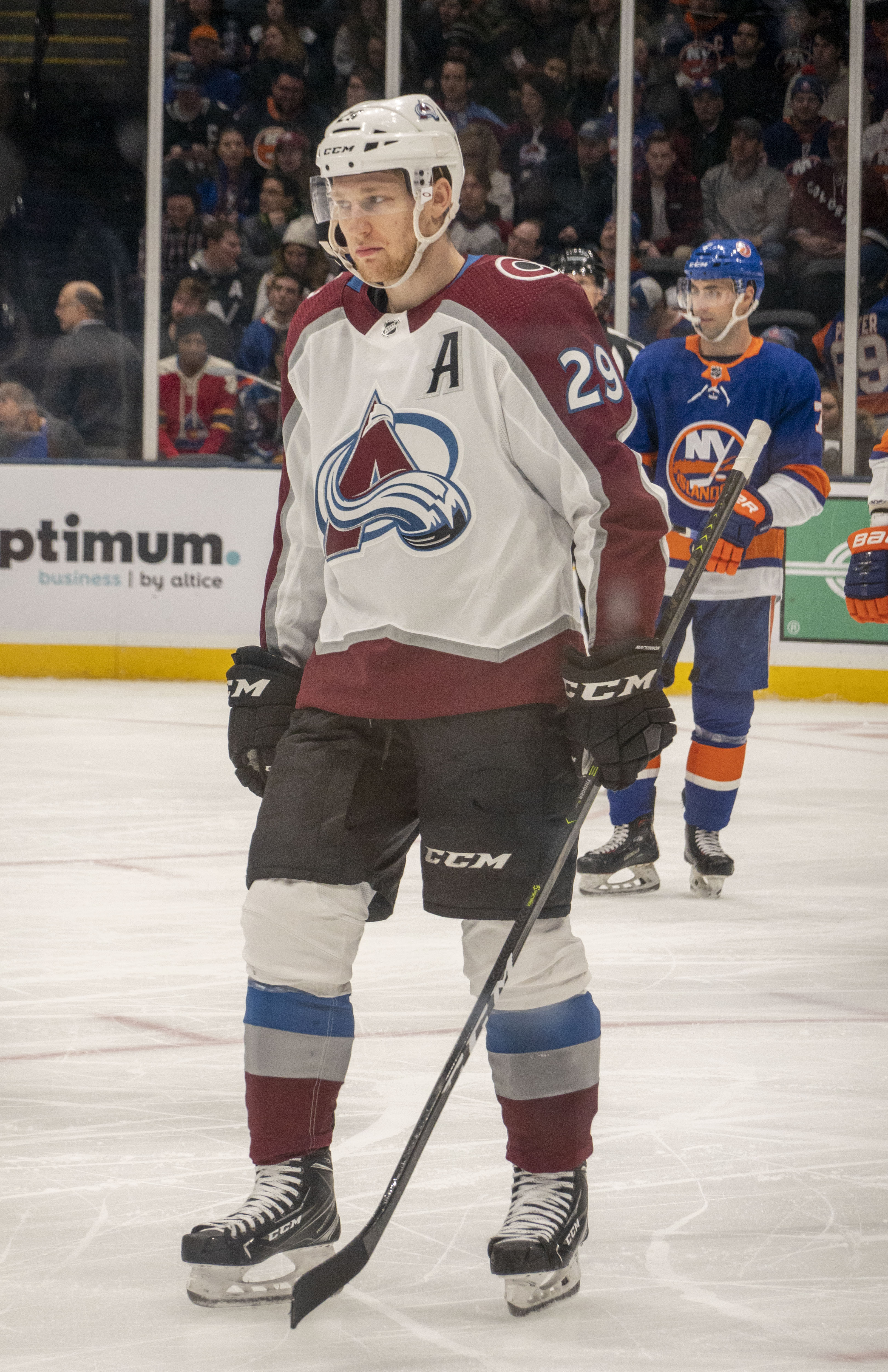 Nathan MacKinnon playing with the Avalanche vs Islanders on January 6, 2020